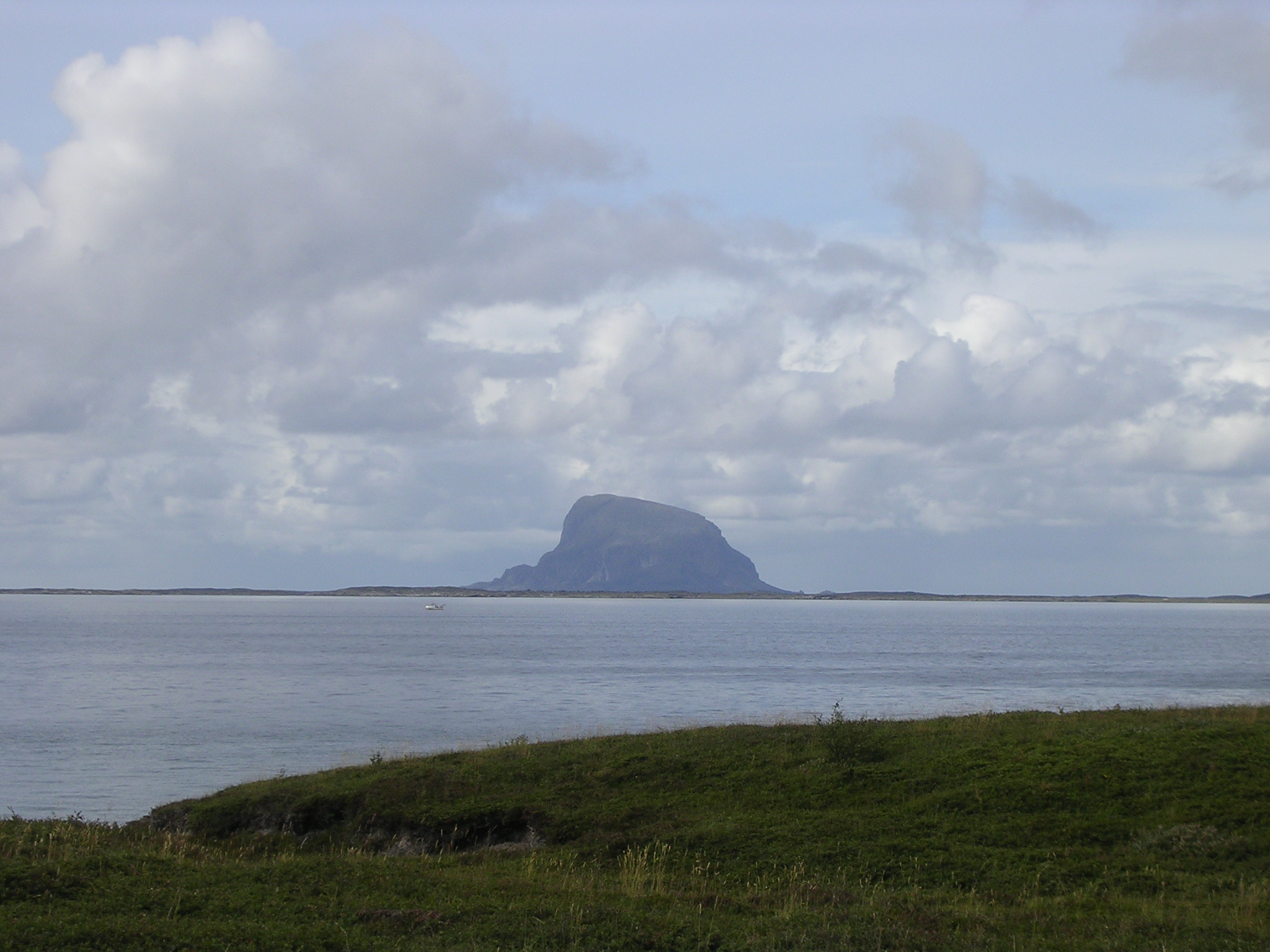 Lovund island in Lurøy, Norway seen from the island Tomma (east)